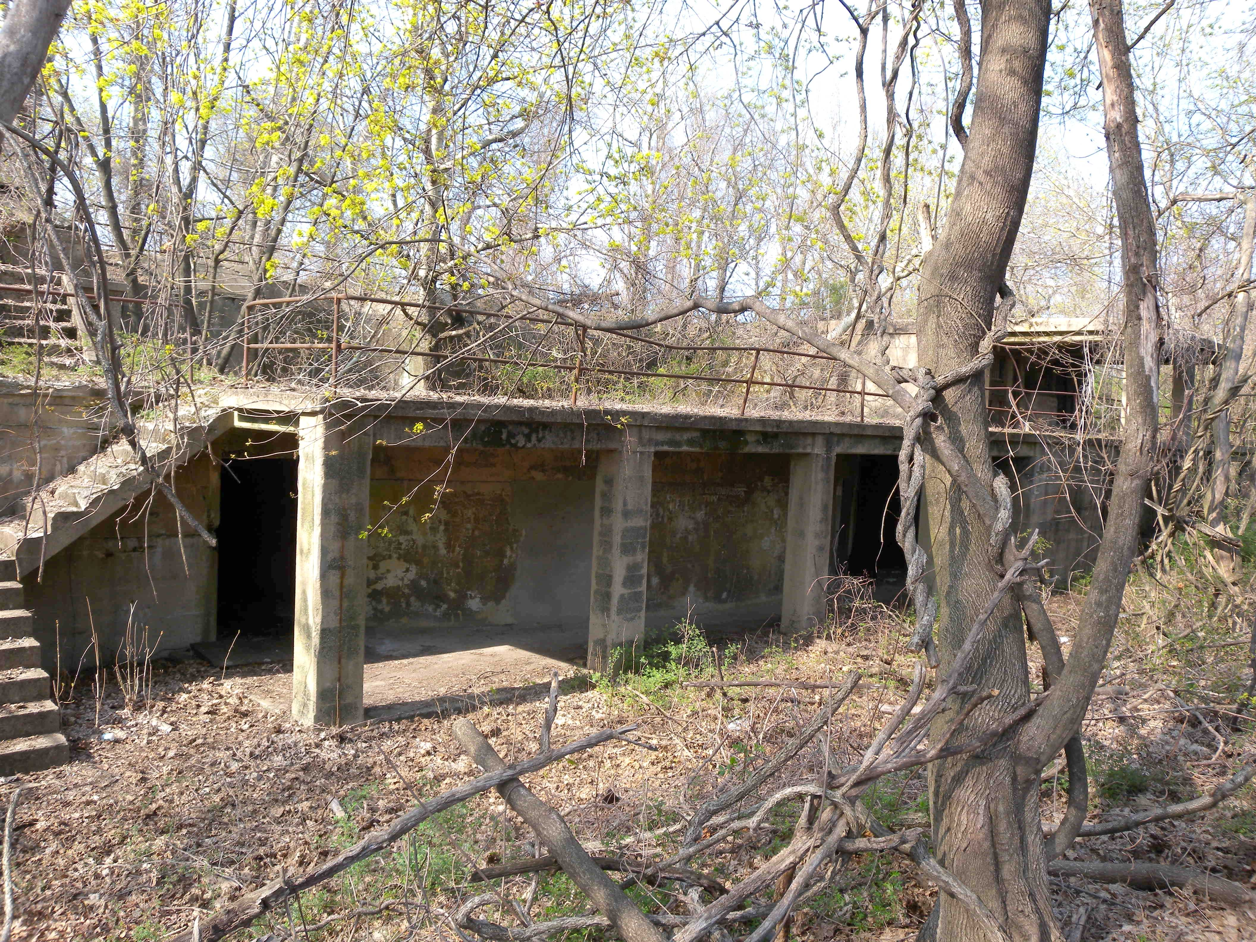 Looking north through a chain link fence at defensive position at northwestern end of Fort Totten, New York on a mostly cloudy afternoon.